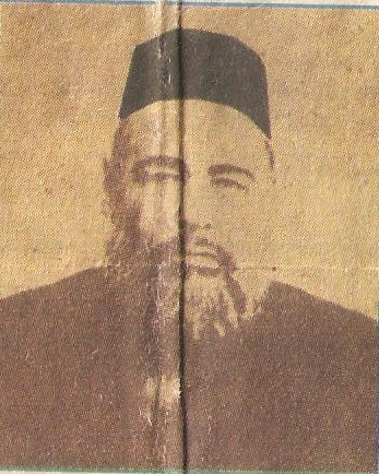 photpgraph of Hakim Abdul Aziz (according to uploader, source unknown)